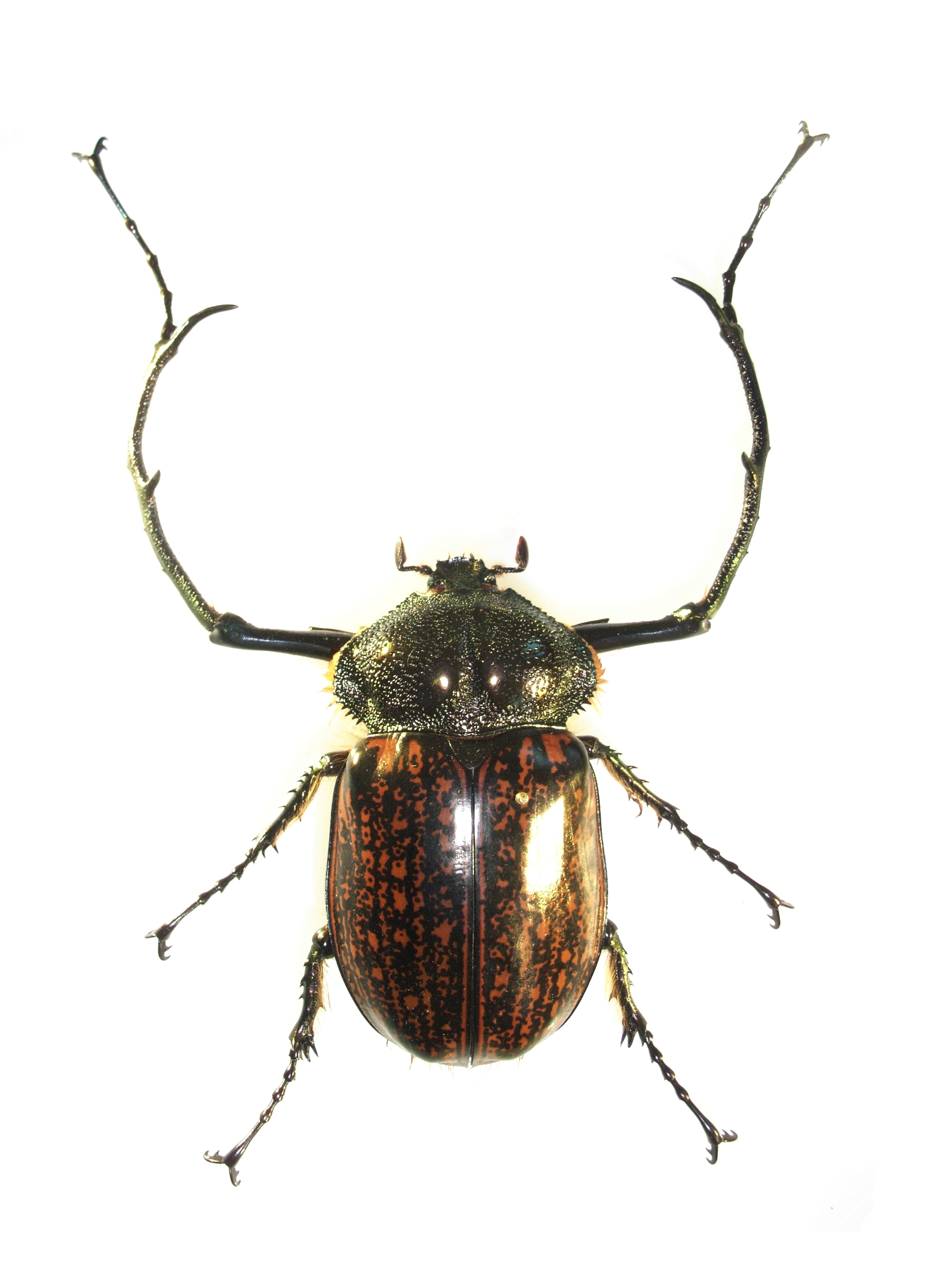 Cheirotonus macleayi Male Ex coll Felix Stumpe